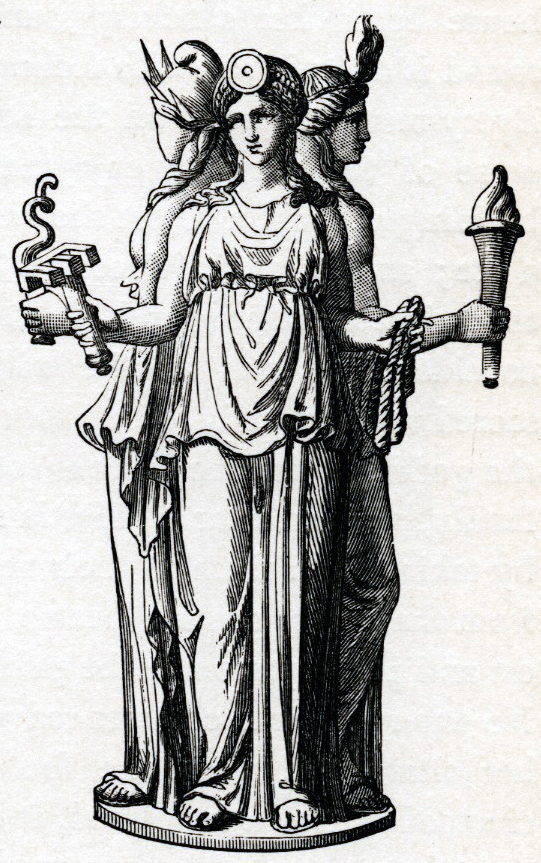 Hecate, Greek goddess of the crossroads